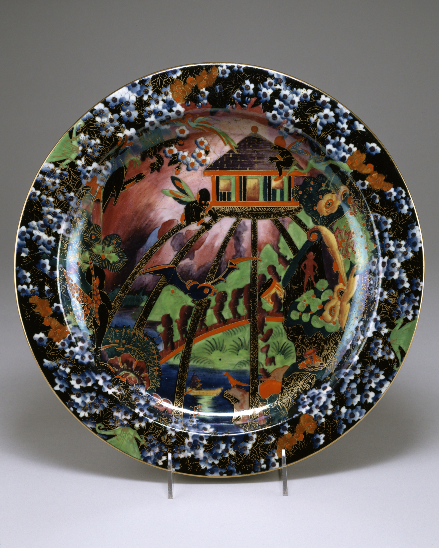 The Wedgwood factory gave Susannah Margaretta (Daisy) Makeig-Jones (1881-1945) her own design studio in 1915. Drawing on her early love of fairy stories, she introduced an imaginative line of decorative wares that remained popular throughout the 1920s. This particular design was introduced in 1924. Engravers transferred Makeig-Jones's designs to copper plates for printing onto paper sheets known as pottery tissues. While the ink was still wet on the pottery tissues, the images were rubbed onto the ceramic surfaces. Women painters then applied the colors to these designs on the ceramics, a process that necessitated several firings, and then added the colorful glazes. The gold details were added last.